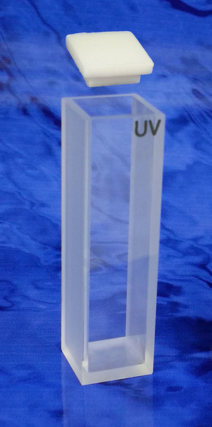 A FireflySci 10mm Cuvette